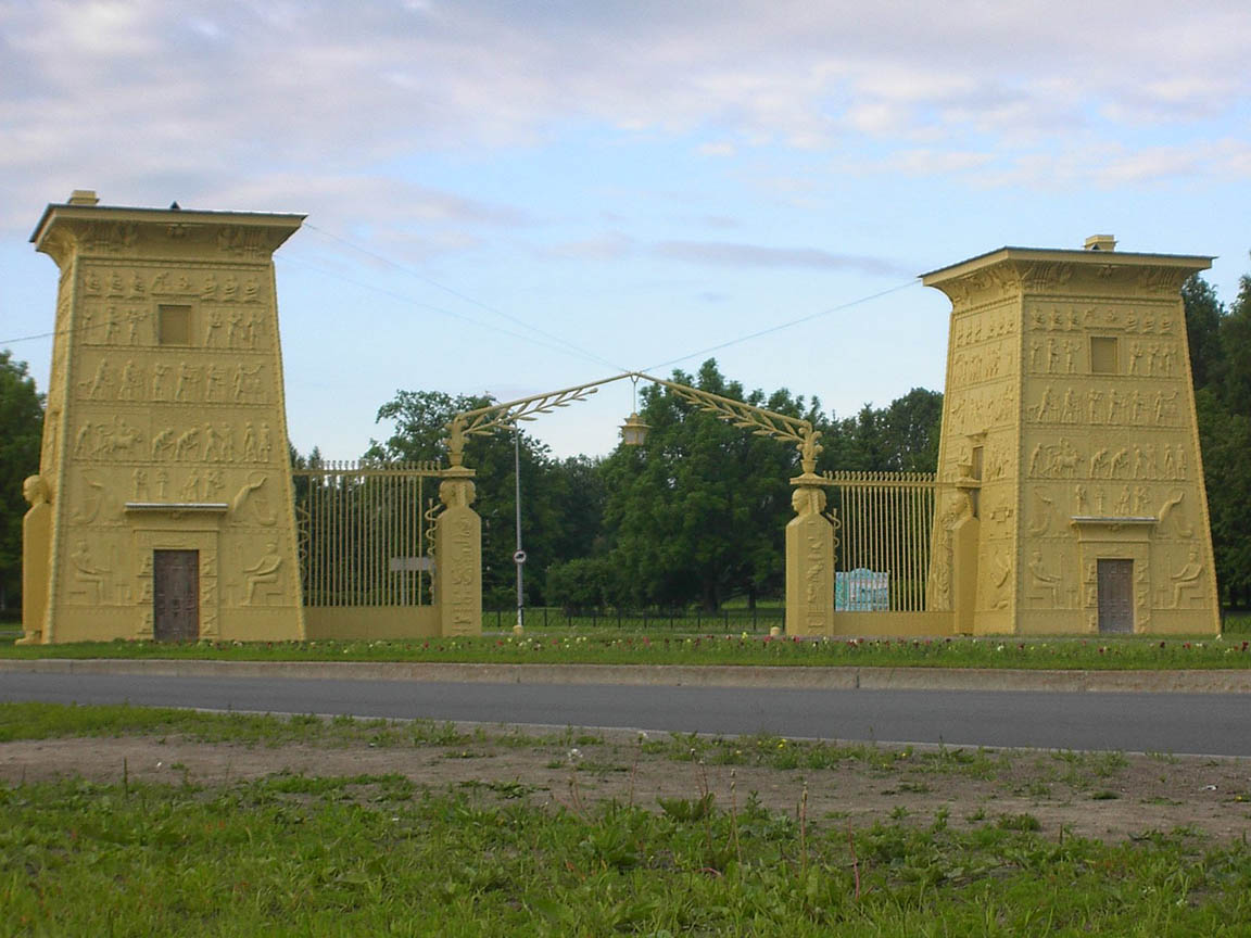 Egyptian Gates in Tsarskoe Selo (1827-30)